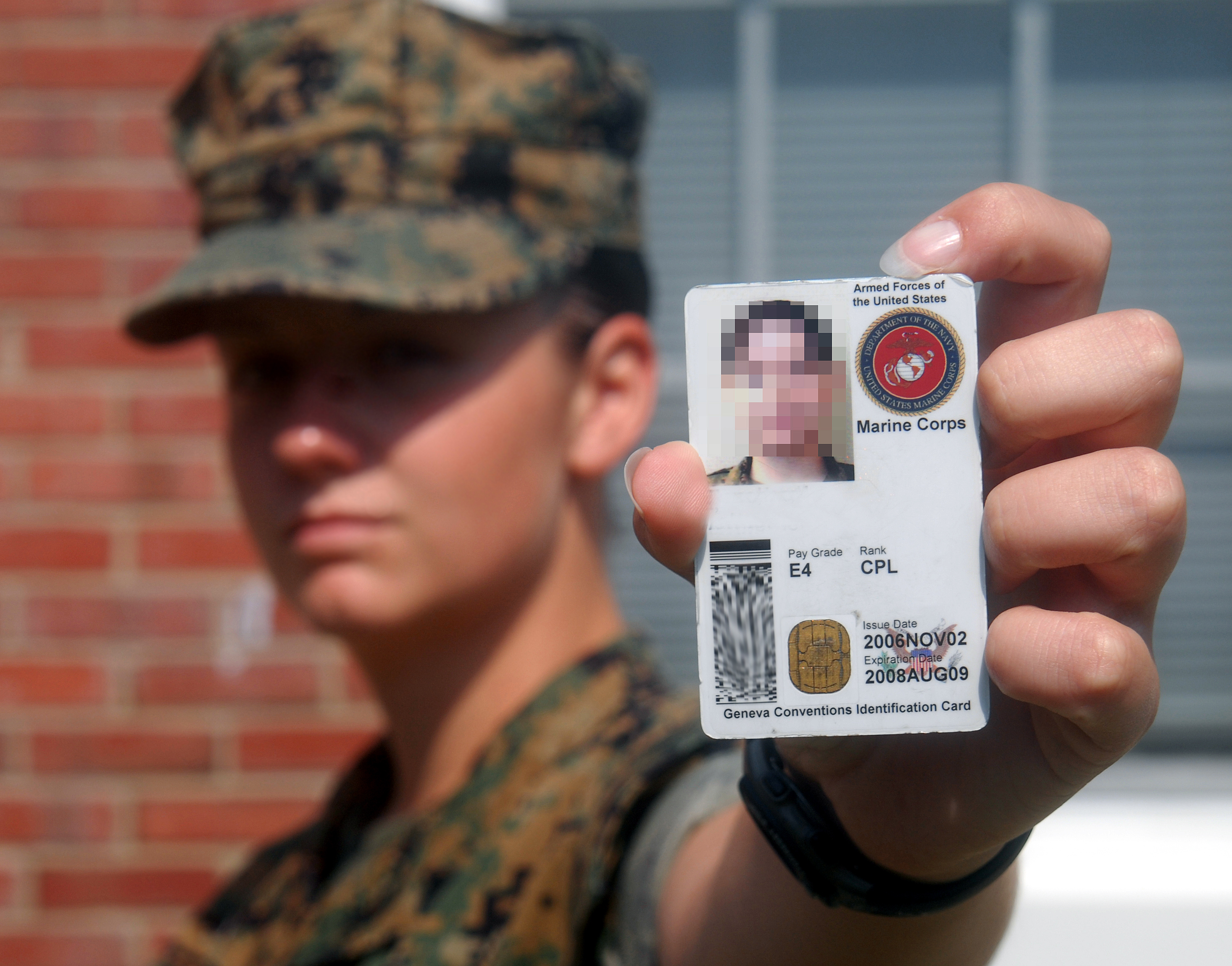 MARINE CORPS BASE CAMP LEJEUNE, N.C. Identity theft is an increasing problem in the United States. Anyone can become a victim, but taking preventive measures reduces the risks.